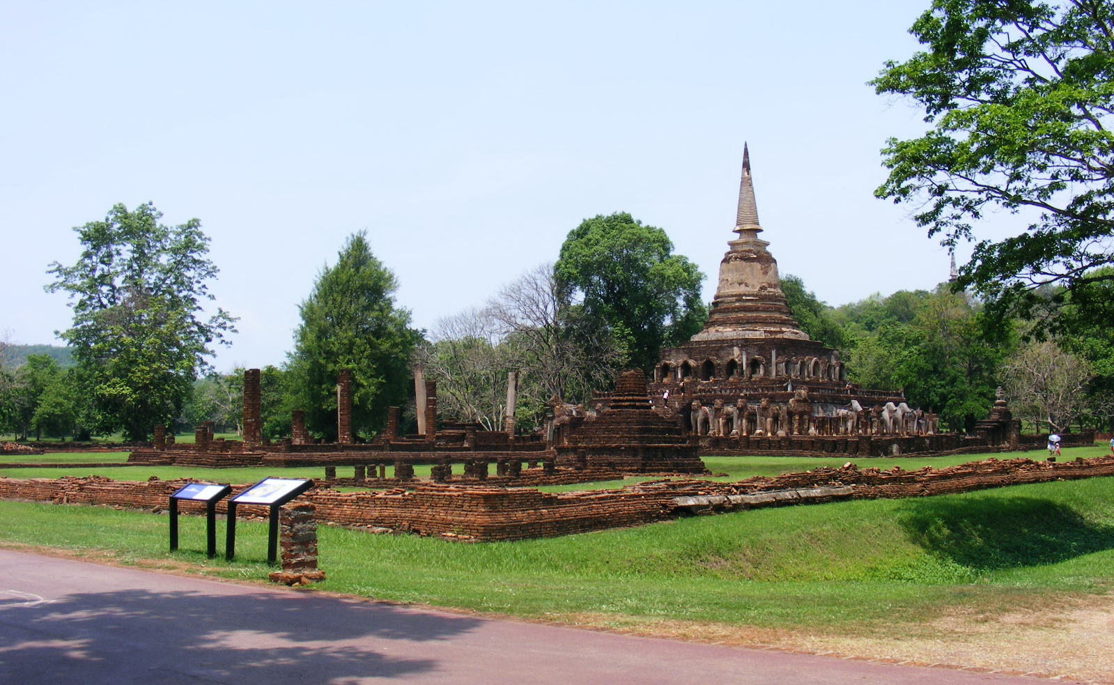 Si Satchanalai historical parkLocation: Si Satchanalai, Sukothai Province, Thailand.